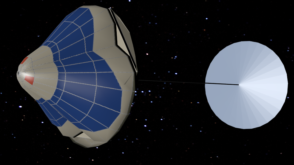 Space Nut II is a Space Colony concept created by Obayashi Corporation in Japan, 1996. The background image is from File:Orion (5493117646).jpg.